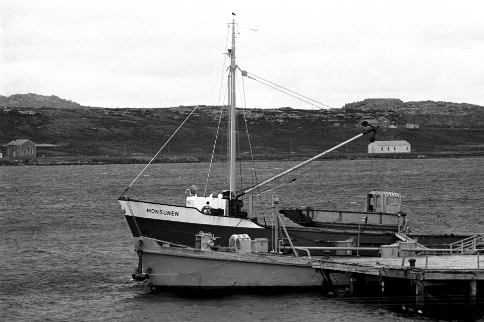 The ship Monsunen from the Falklands Islands Company during the Falklands War, this ship was captured by the Argentine Navy, who used it for cargo missions.